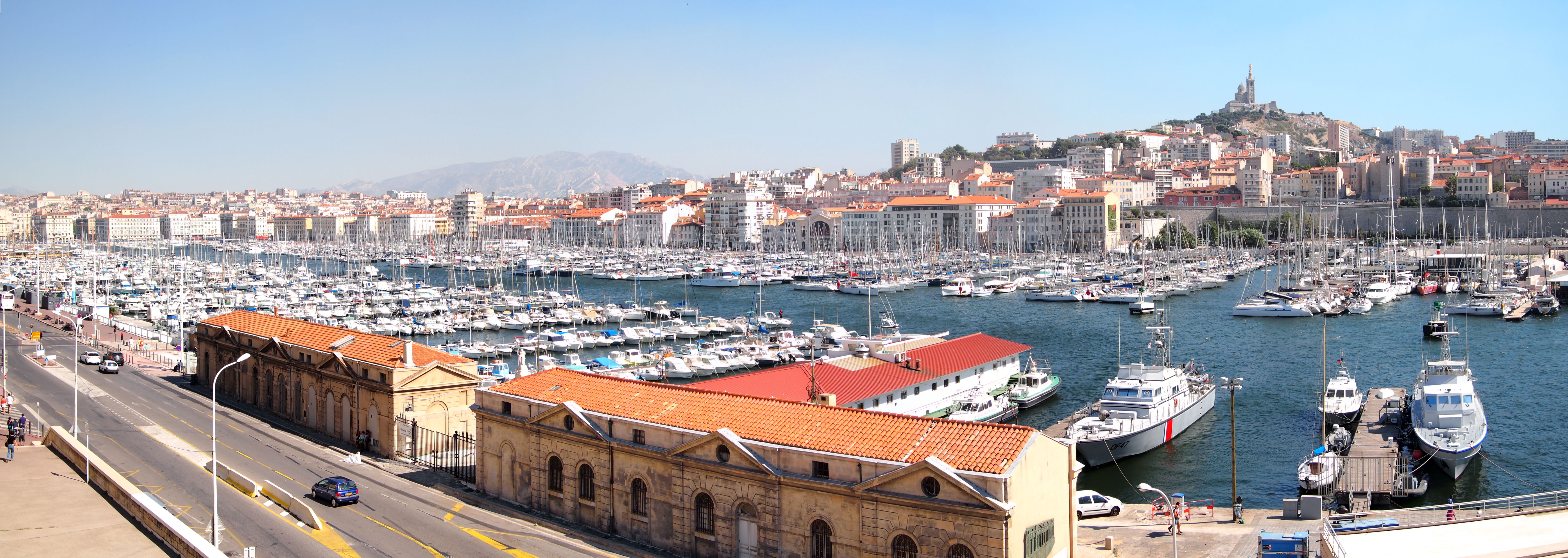 Vieux-Port in Marseille This photograph was taken with an Olympus E-PL1